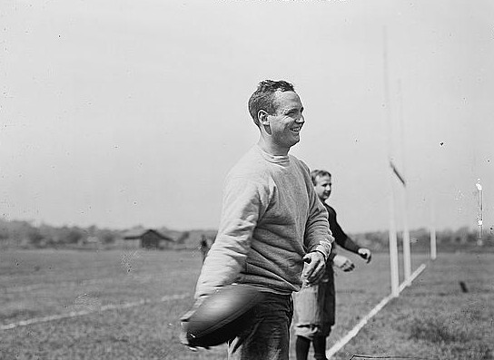 Bob Fisher (1887–1942), an American football player